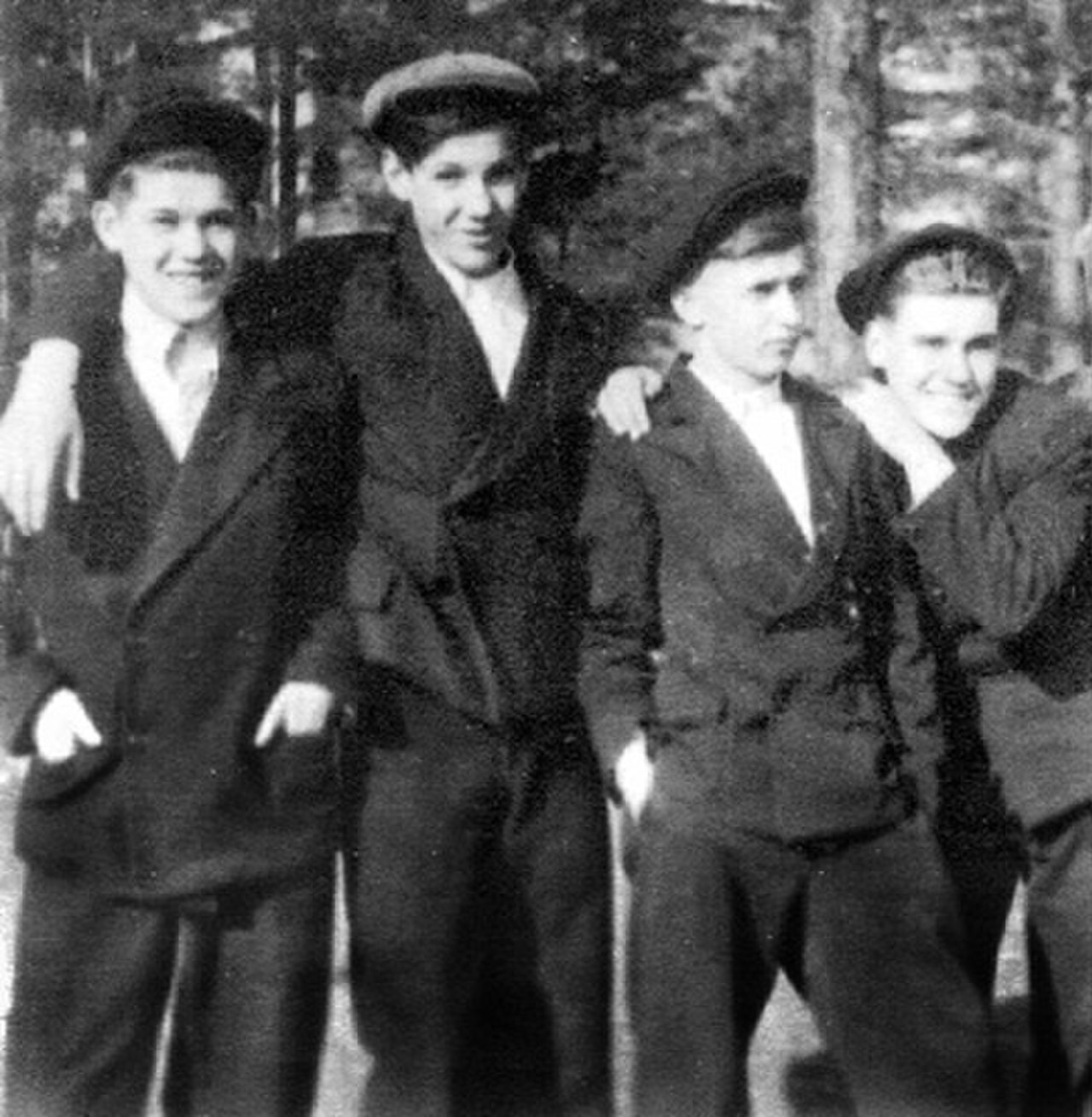 Boris Eltsin (second from left) with his friends